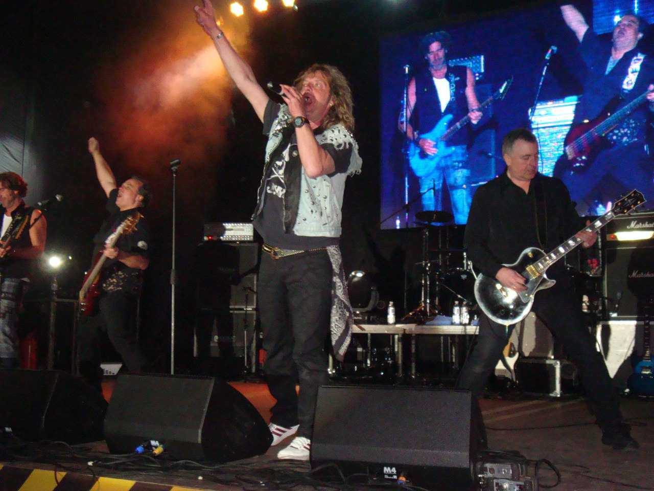 Bonfire_krock